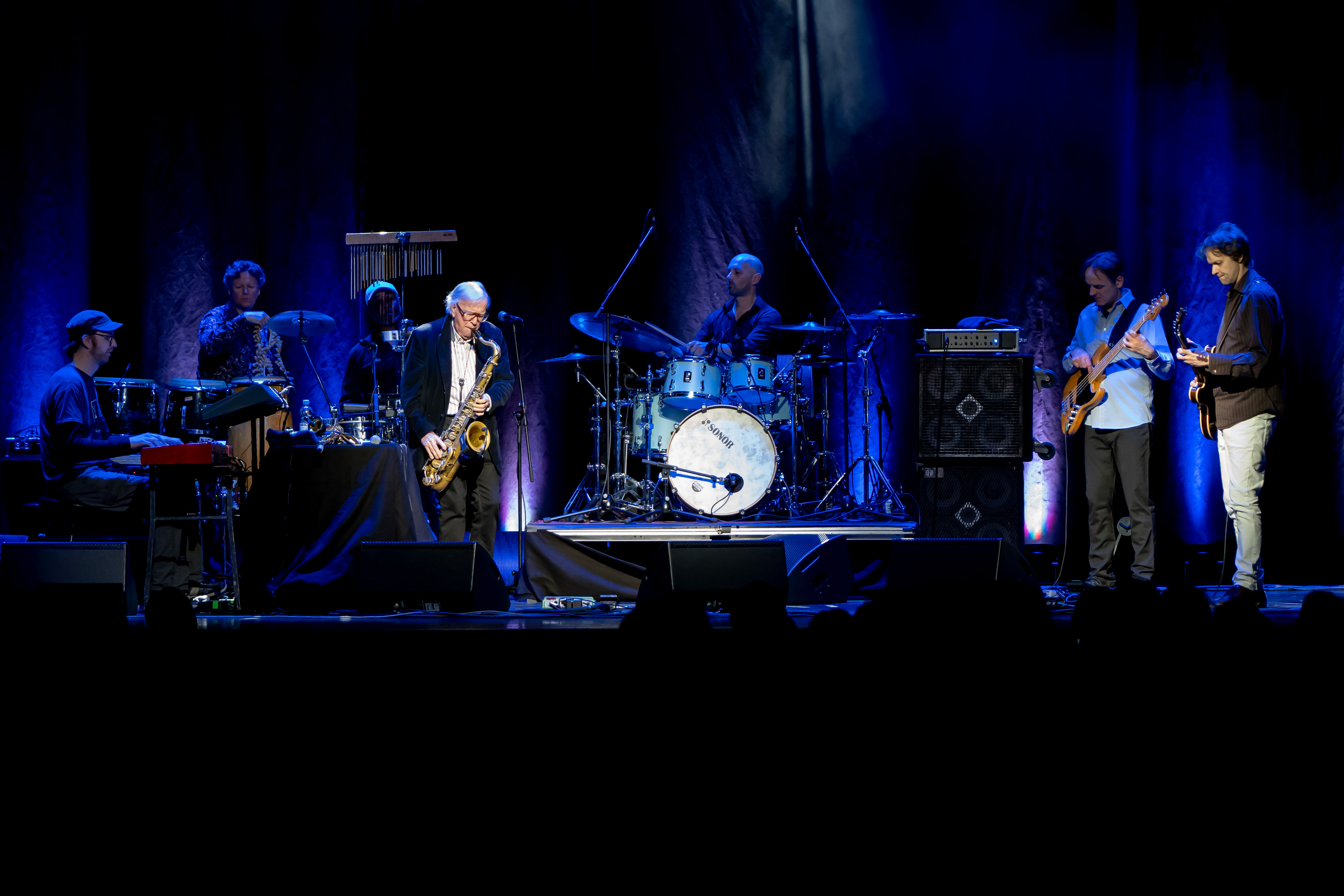 Klaus Doldinger's band Passport live on stage in Backnang (Germany). Featuring: Michael Hornek - keyboards, Martin Scales - guitar, Patrick Scales - bass, Biboul Darouiche - percussion, Ernst Ströer - percussion, Christian Lettner - drums